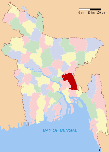 District locator map in red in Bangladesh